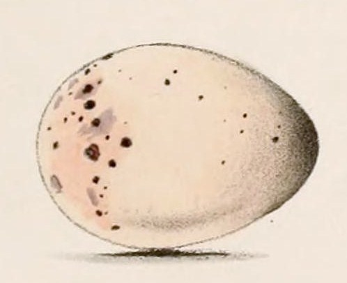 « Dicrurus forficatus » = Dicrurus forficatus (Crested Drongo) - egg